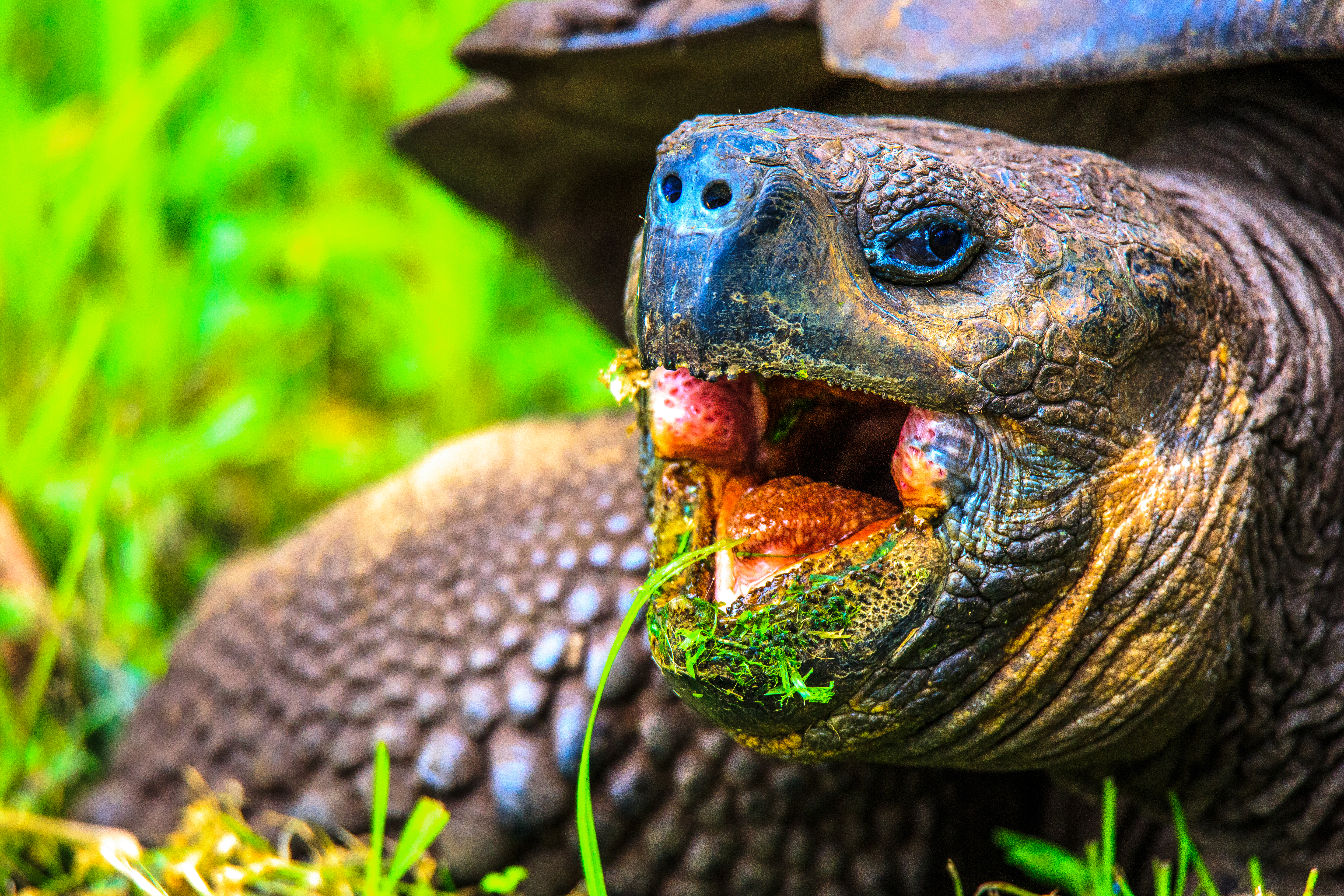 inside the Tortoise Reserve on Santa Cruz, Is...Galapagos (Giant) Tortoise (Geochelone elephantopus) (Testudinidae)...up to 250 kg...